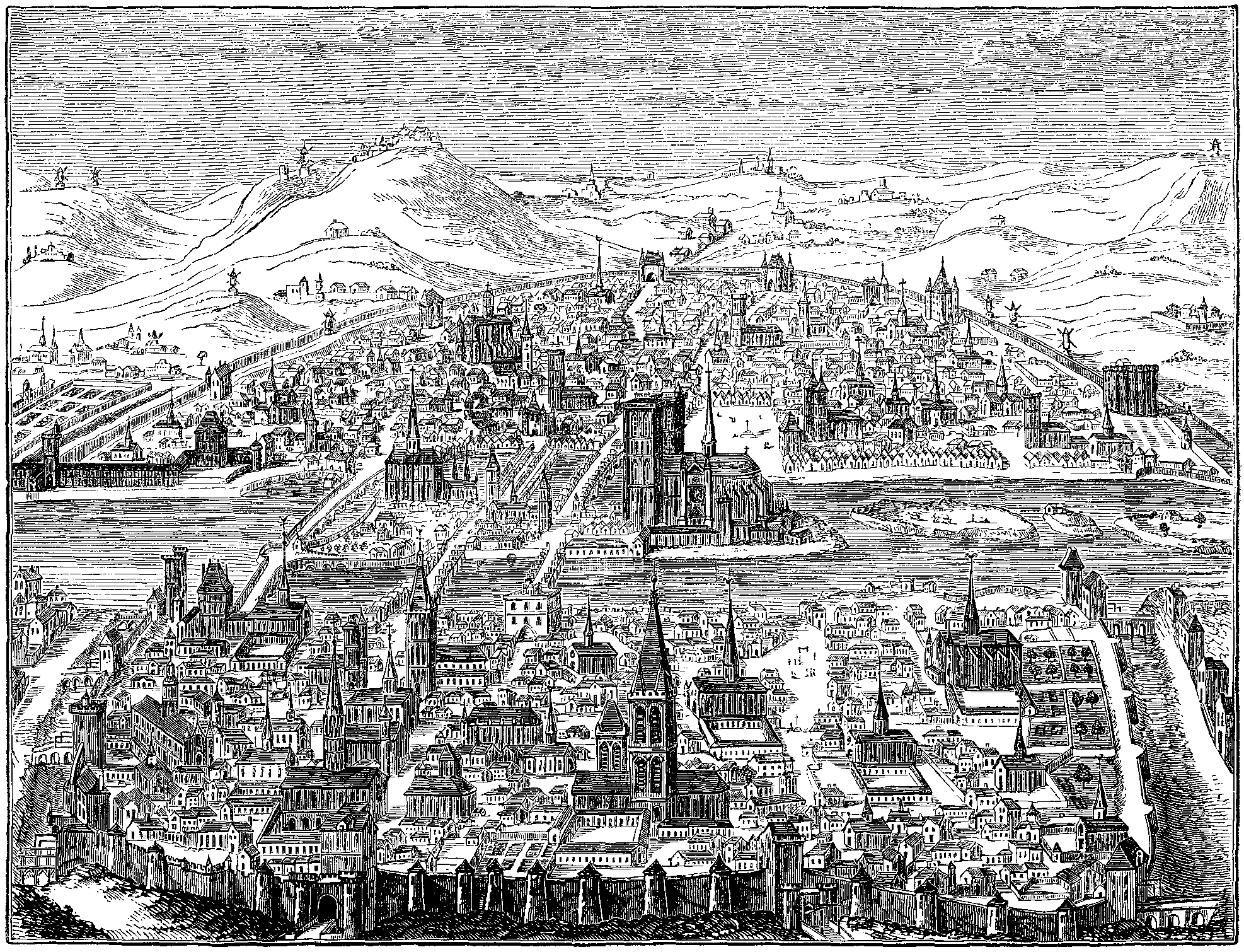 Perspective View of Paris in 1607.--Fac-simile of a Copper-plate by Léonard Gaultier. (Collection of M. Guénebault, Paris.) Project Gutenberg text 10940